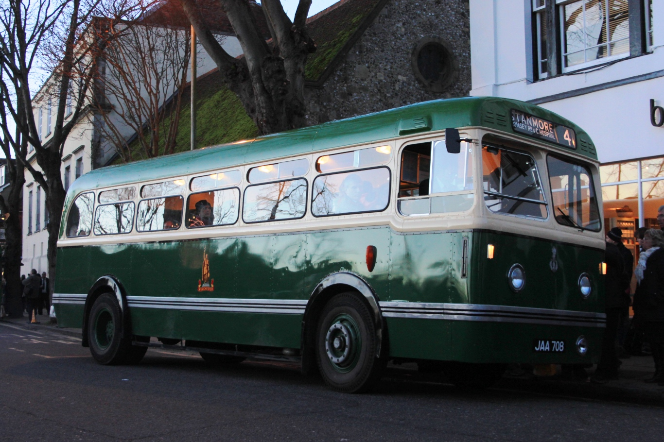 New Year's Day 2013 saw the first day in service for newly restored, JAA 708, a rare example of a Leyland Olympic that was delivered to King Alfred Motor Services in Winchester 1950.